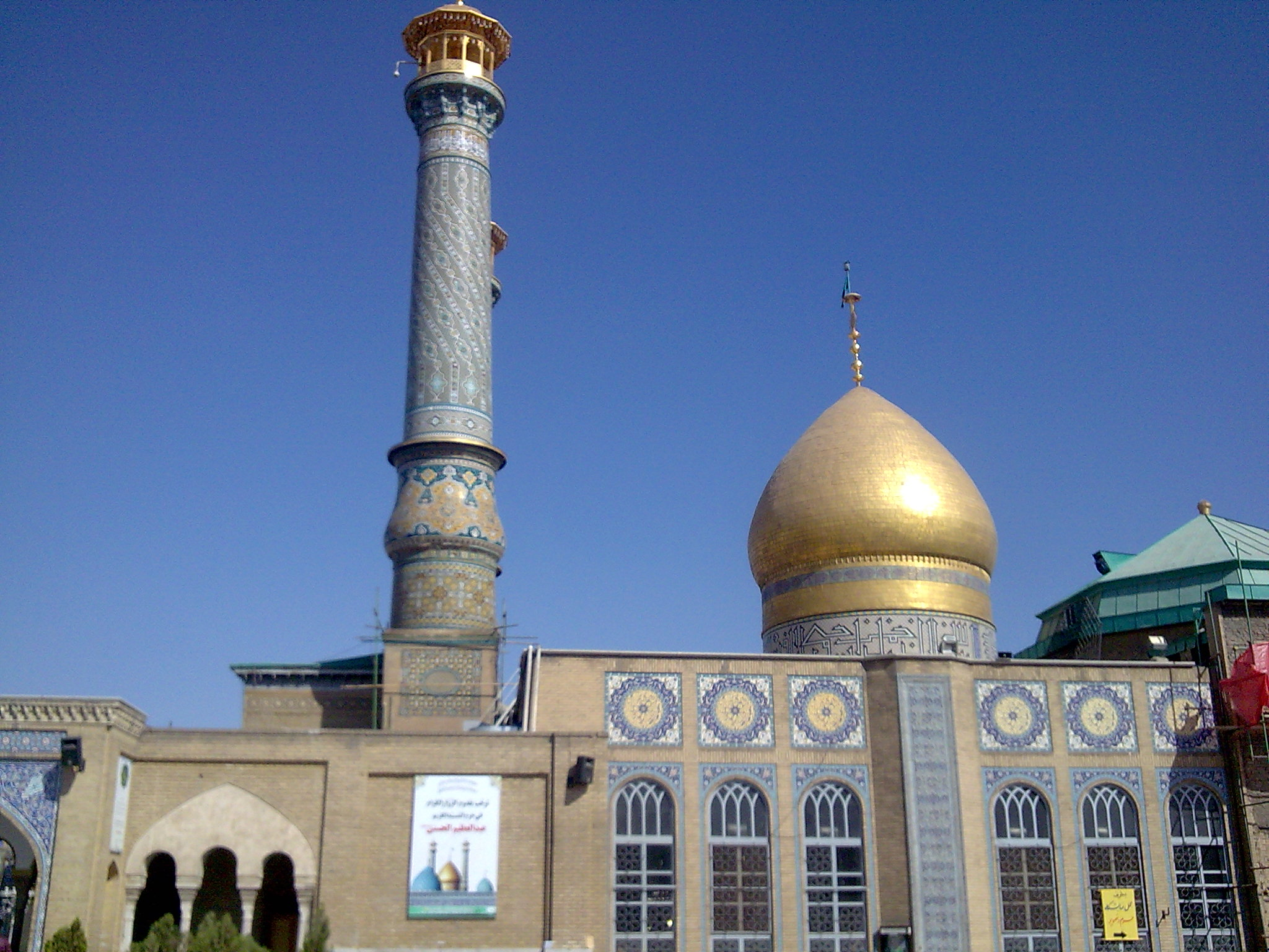 The holy shrine of Abdolazim Hassani in Ray, Iran